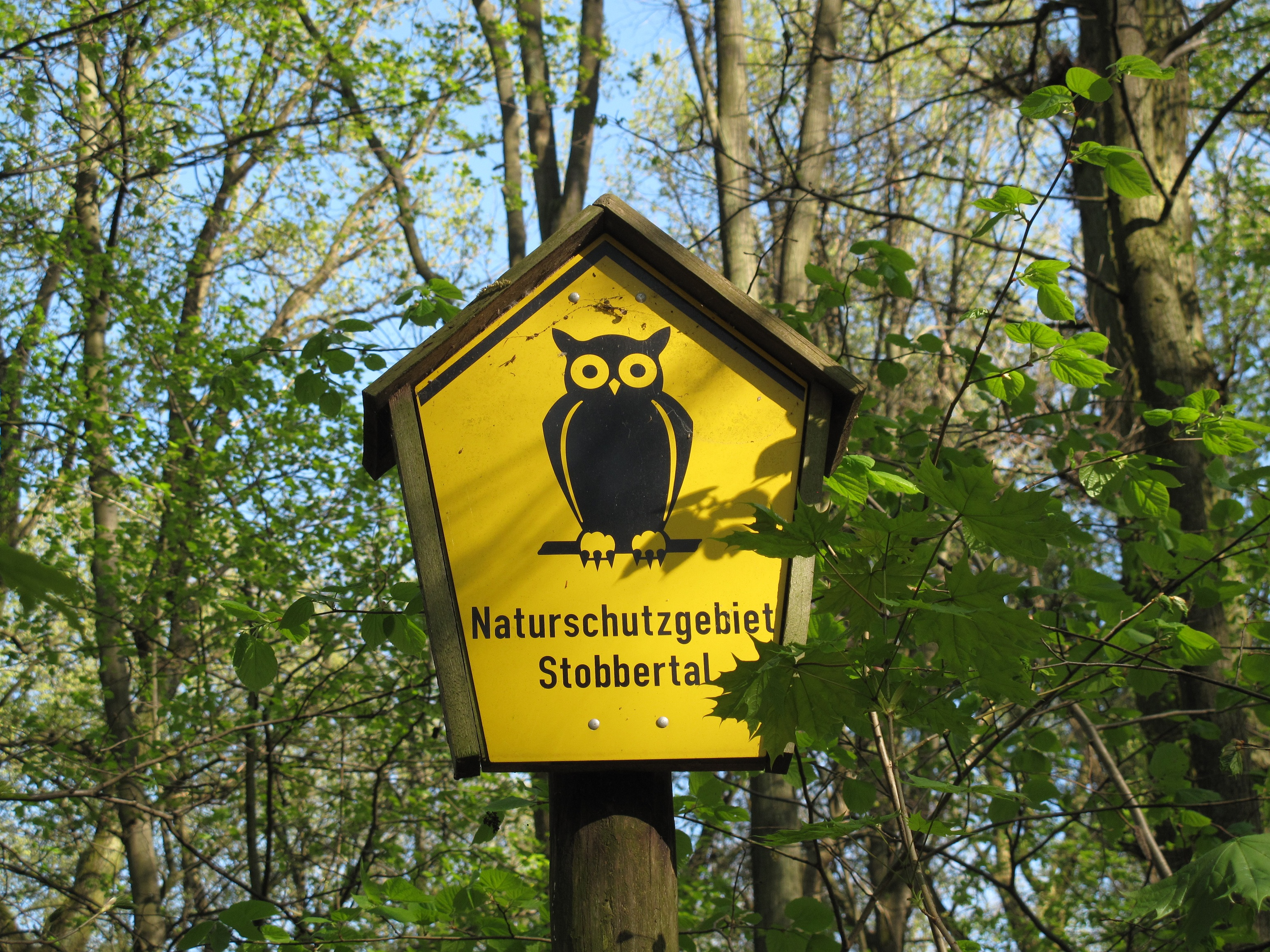 Sign Naturschutzgebiet Stobbertal. The Stobber (also called Stöbber) is the central river in the hill country „Märkische Schweiz“ and the Märkische Schweiz Nature Park, Brandenburg, Germany. The stream runs over a distance of 25 kilometers from the lowland moor and source area Rotes Luch towards the northeast through Buckow to the Oderbruch. The Stobber flows at Neuhardenberg to the „Friedländer Strom“, whose waters run over some canals to the Oder River → Baltic Sea. On a roughly 13 kilometer long route of its course there is designated the nature protection area „Naturschutzgebiet Stobbertal“.